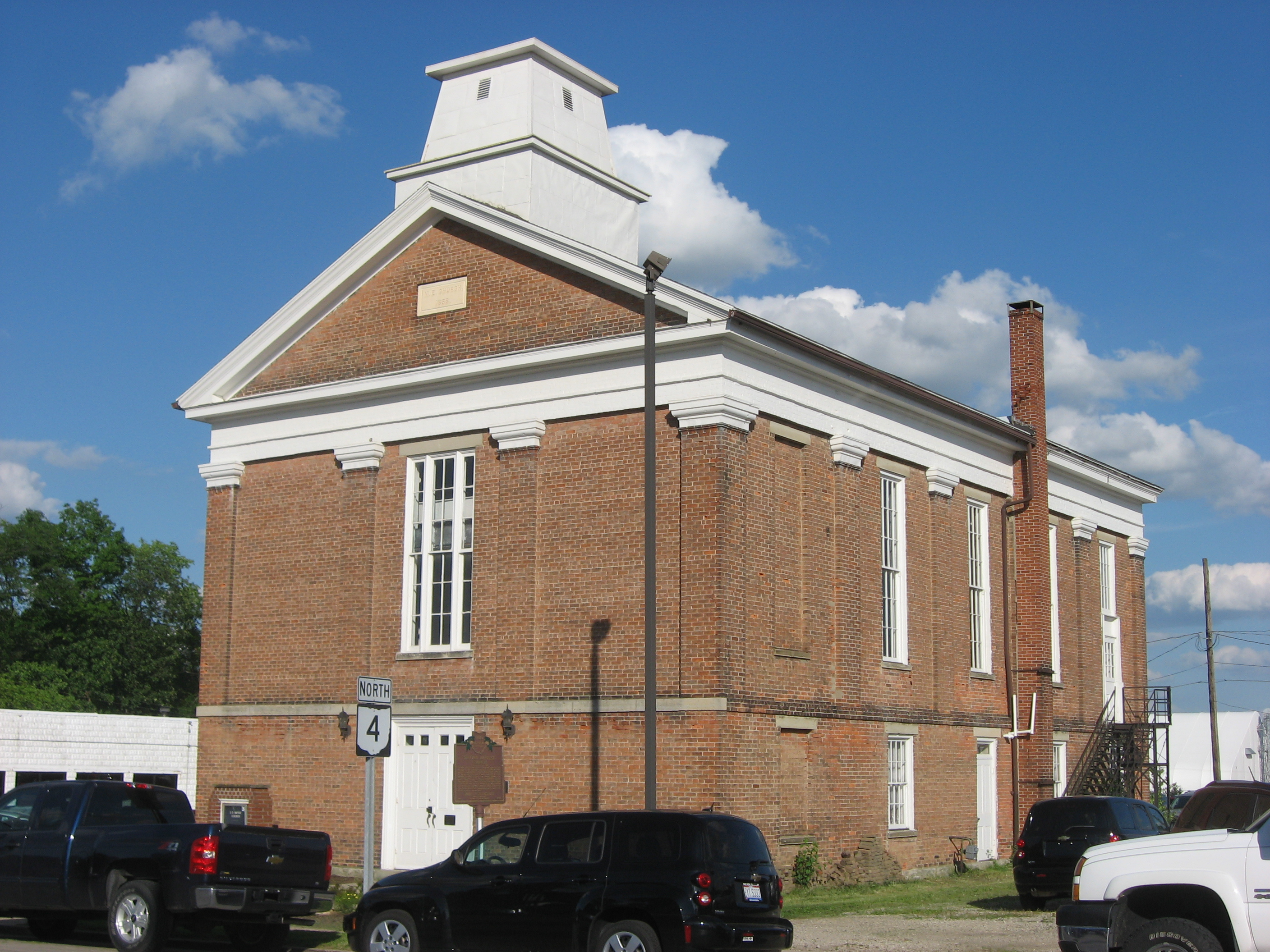 Front and western side of the Second Baptist Church, located in the first block of E. Sandusky Street (State Route 4) in Mechanicsburg, Ohio, United States. Built in 1858, it is listed on the National Register of Historic Places.